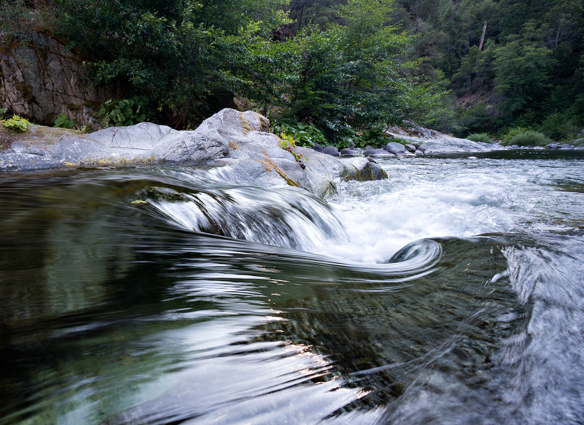 "The white rose of eddy-foam, where the stream ran into a scooped or scalloped hollow of the rock in its channel; this shape, an exact white rose, was forever overpowered by the stream rushing down in upon it, and still obstinate in resurrection it spread up into the scallop by fits and starts, blossoming in a moment into full flower." -- Samuel Taylor Coleridge Photo from Wooley Creek, Marble Mountains